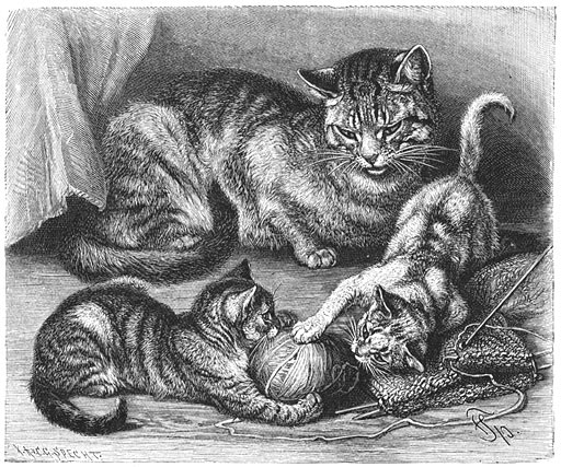 Wilde Kat (Felis catus).